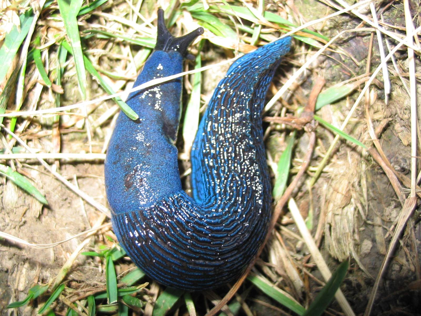 Photo of Bielzia coerulans.